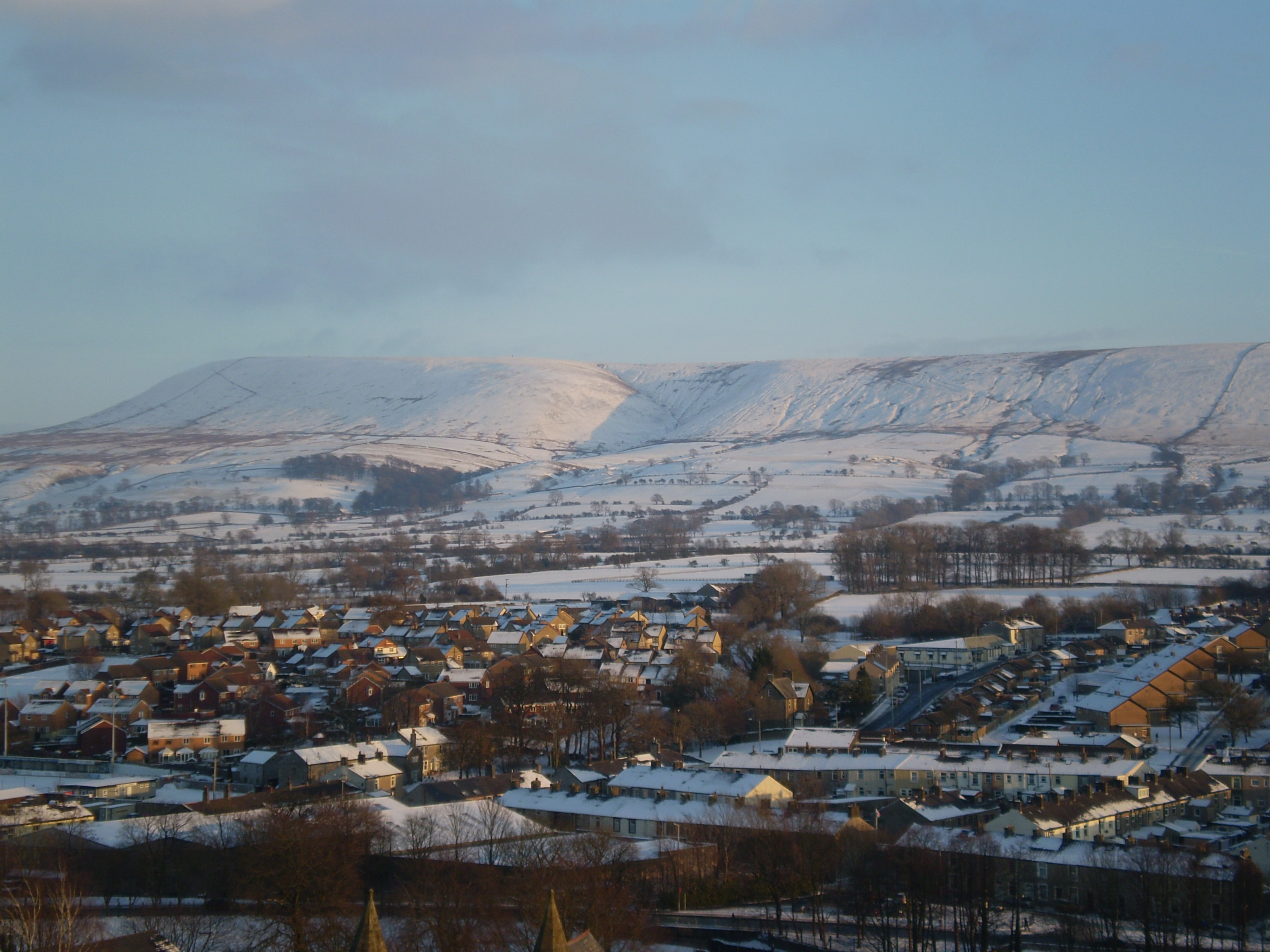 View towards Pendle Hill